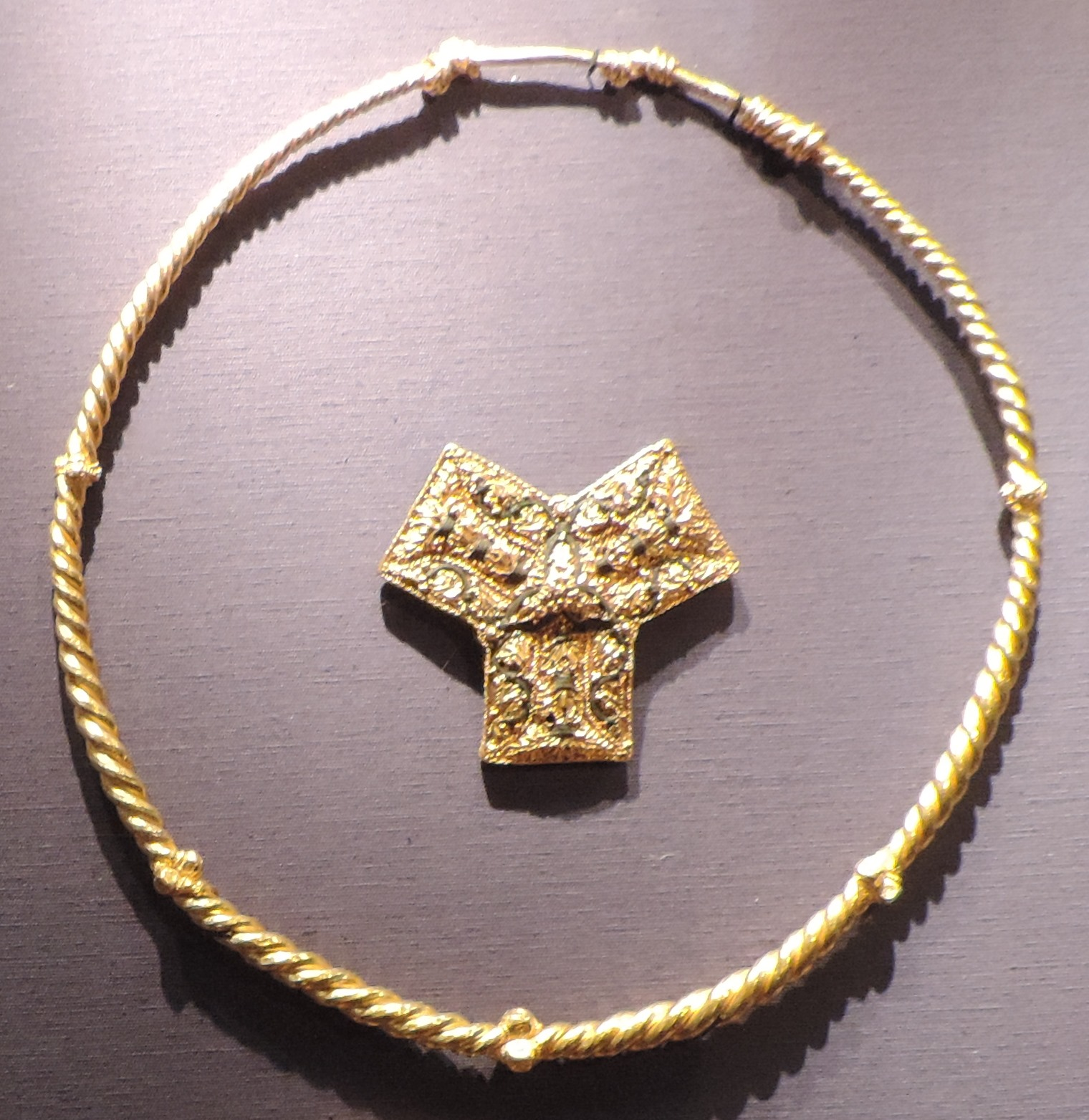 Exhibit of the Museum of Cultural History, Oslo